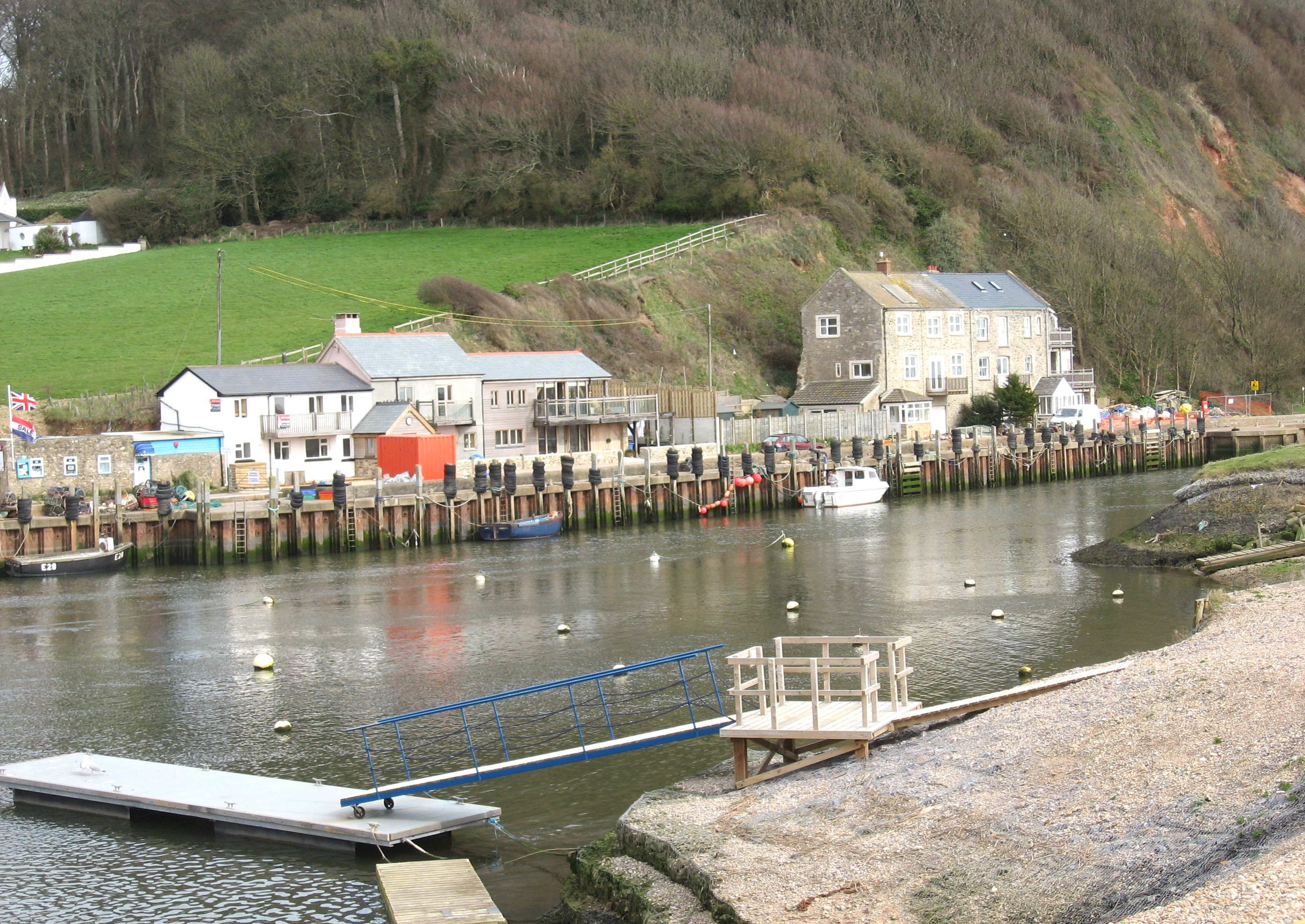 Axmouth Harbour.